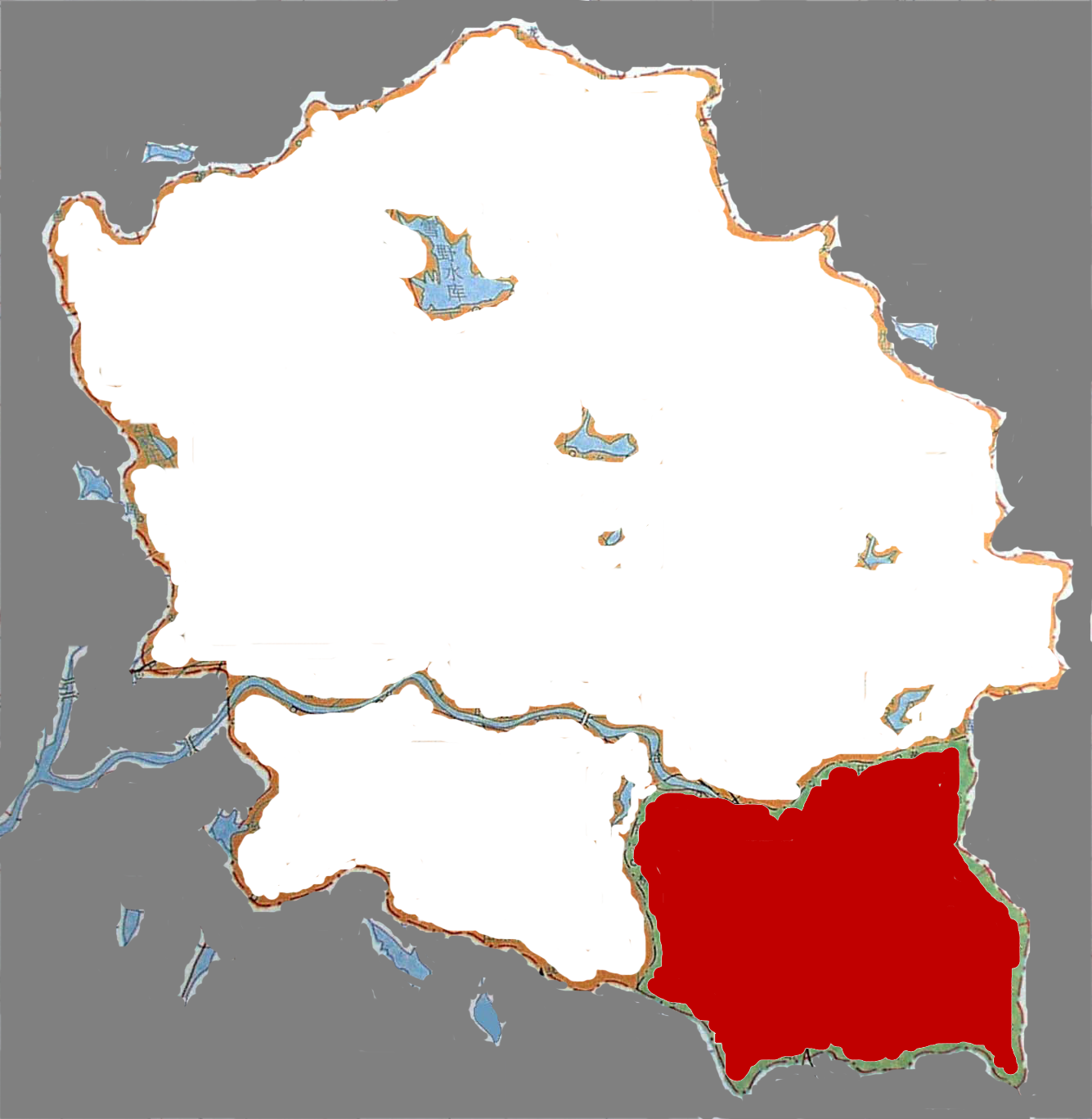 Location of Gangcheng district in Laiwu City, China